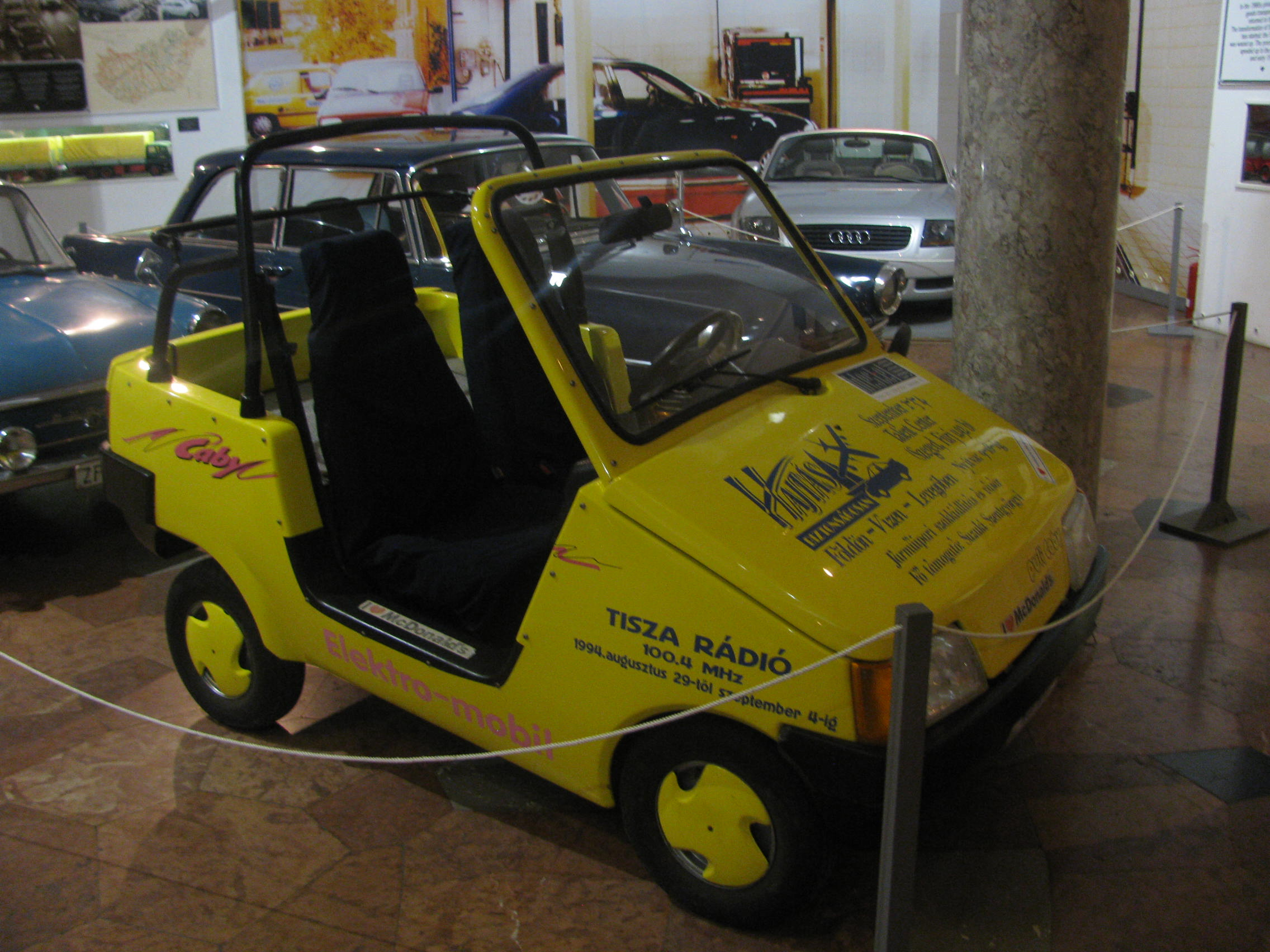 Puli electrically powered microcar from 1992. Maximum output 7.4 kW (10 hp); equipped with 10 pcs of 240-6V batteries; charging voltage 220 V; charging time 8–12 hours; top speed 65 km/h.